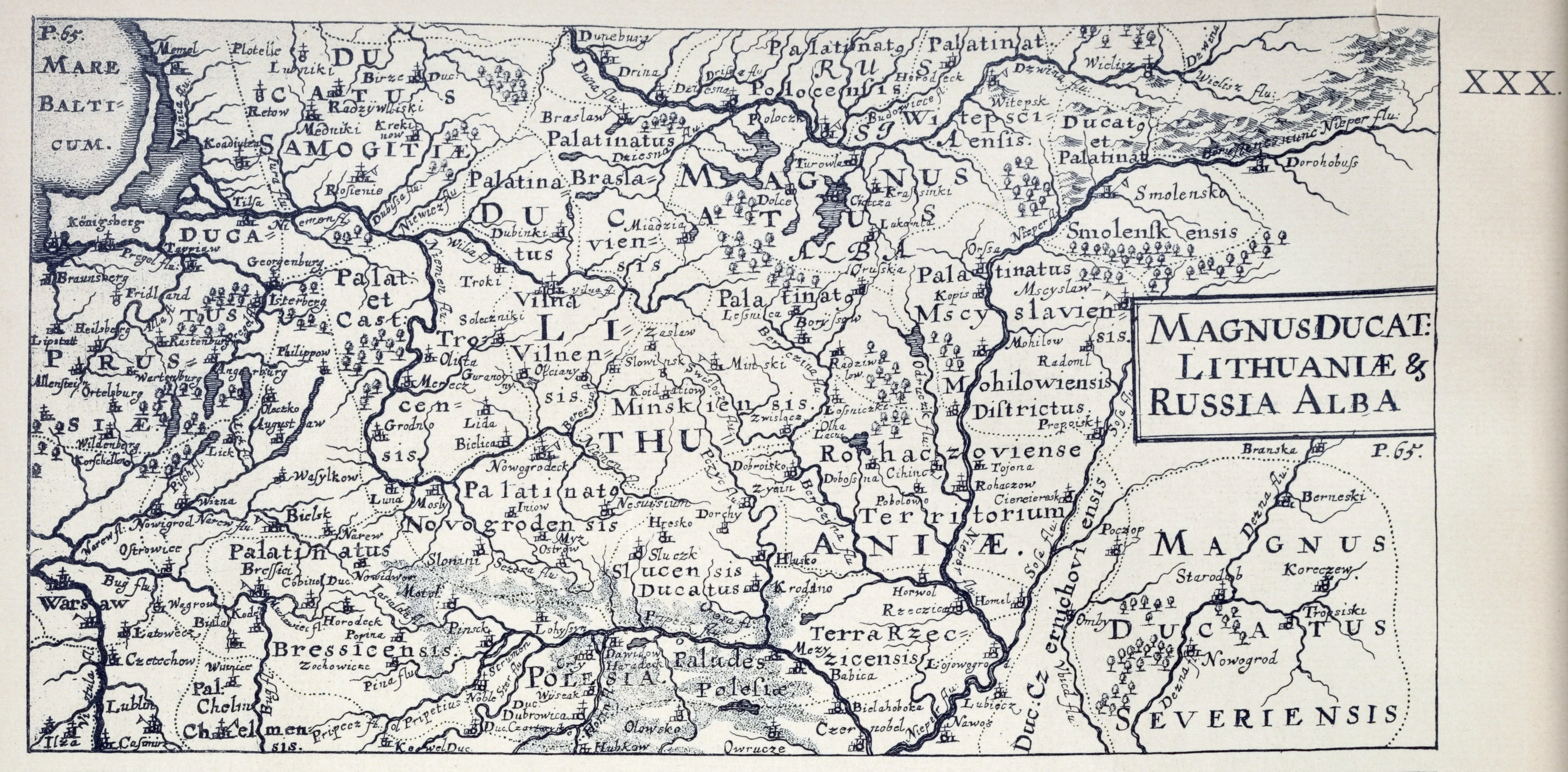 Ancient map of the Grand Duchy of Lithuania (1687) Беларуская (тарашкевіца): Беларуская (тарашкевіца): Старажытная мапа Вялікага Княства Літоўскага (1687)